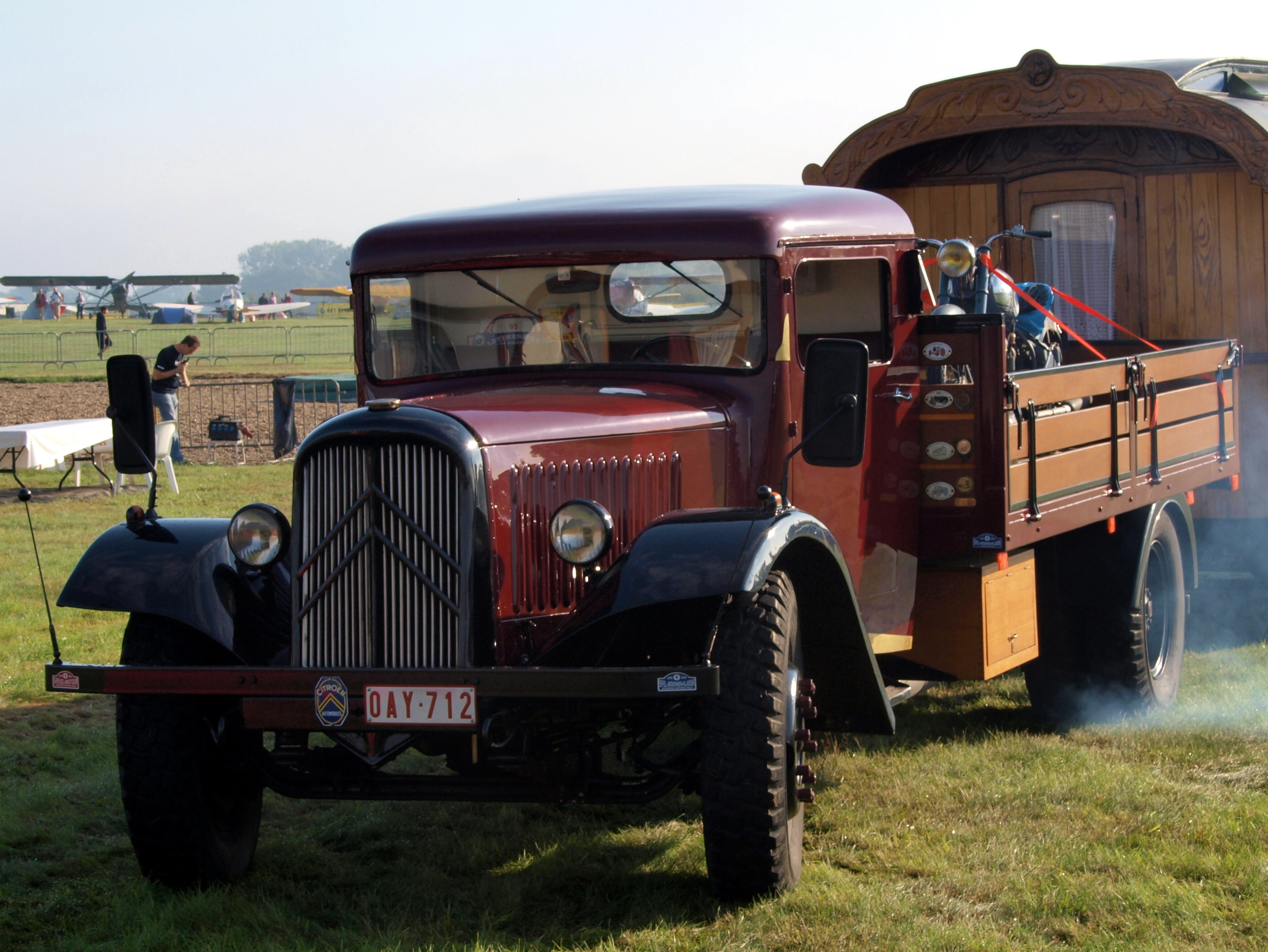 Photographed at The International Oldtimer Fly and Drive In 2010, Schaffen-Diest, Belgium.